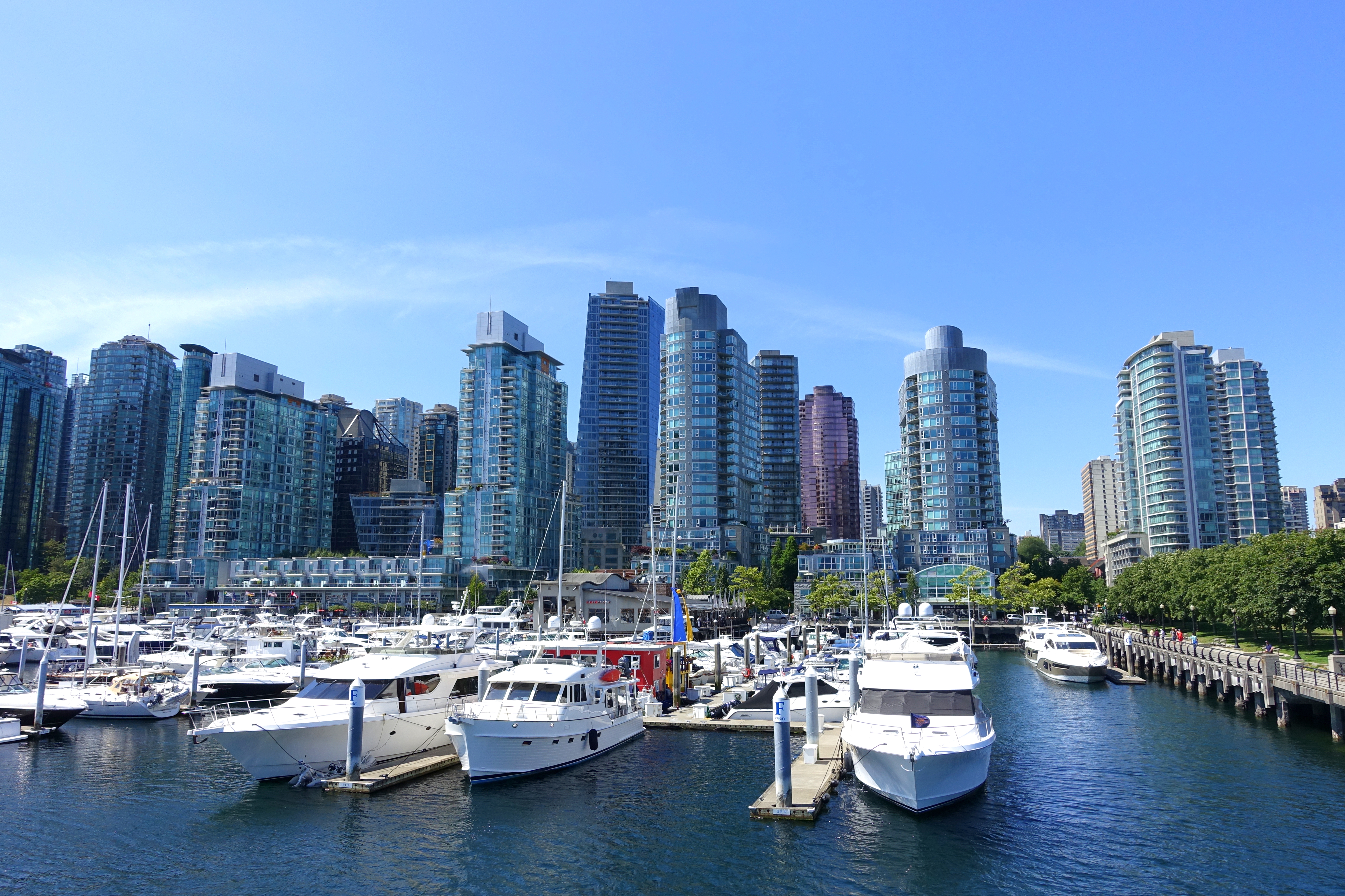 Vancouver, British Columbia, Canada.